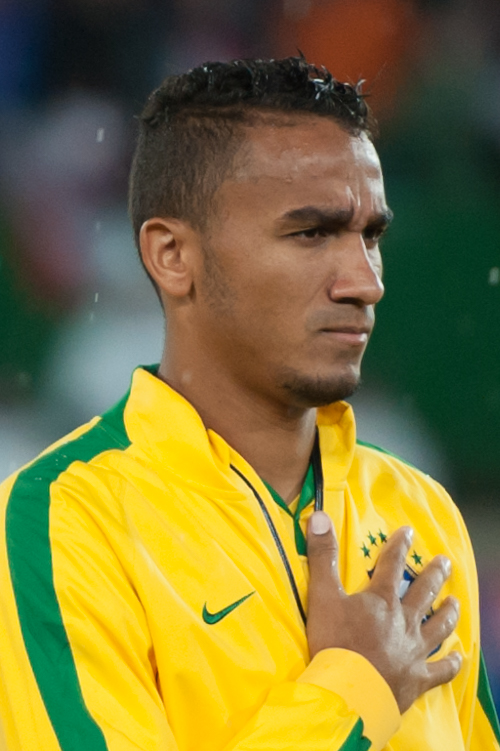 International Friendly Austria - Brazil November 18, 2014: Danilo